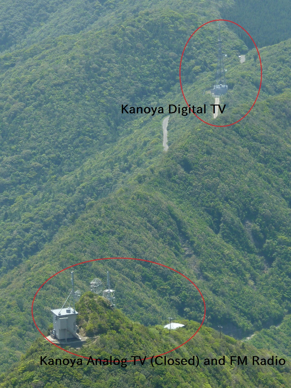 Kanoya Repeater (Kanoya City, Kagoshima, Japan)